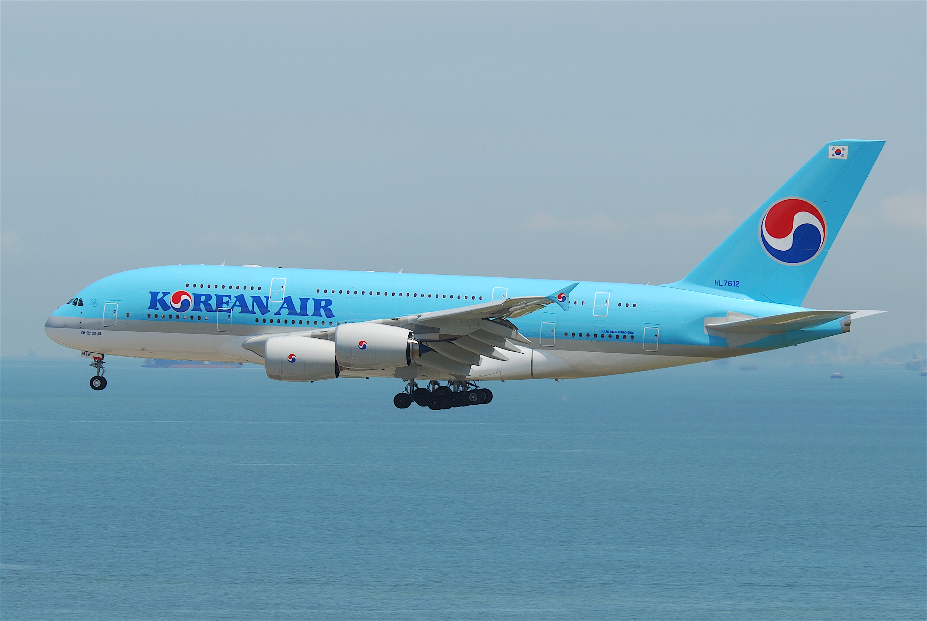 Korean Air Airbus A380-861; HL7612@HKG;04.08.2011/615dr